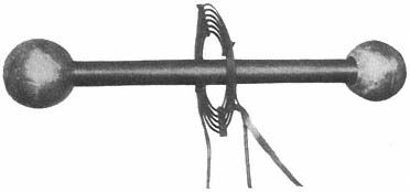 A 5 MV Tesla coil built by pioneering accelerator physicists Merle Tuve and Gregory Breit at the Carnegie Institution in 1928 for use as an early particle accelerator. It consists of a cylindrical secondary coil one meter long of 800 turns of fine wire on a pyrex tube, with spherical metal corona caps attached to each end, with a spiral primary of 5 turns of thick wire around the center. The pyrex secondary coil form was evacuated and used as the acceleration tube within which the electrons were accelerated. It was operated immersed in a tank of insulating oil pressurized to 500 psi to prevent air breakdown to reach high voltages. The coil reached voltages of 5.2 MV but did not work well as a particle accelerator because the high frequency AC voltage left only a small interval of time at the peak of each cycle to accelerate the particles.